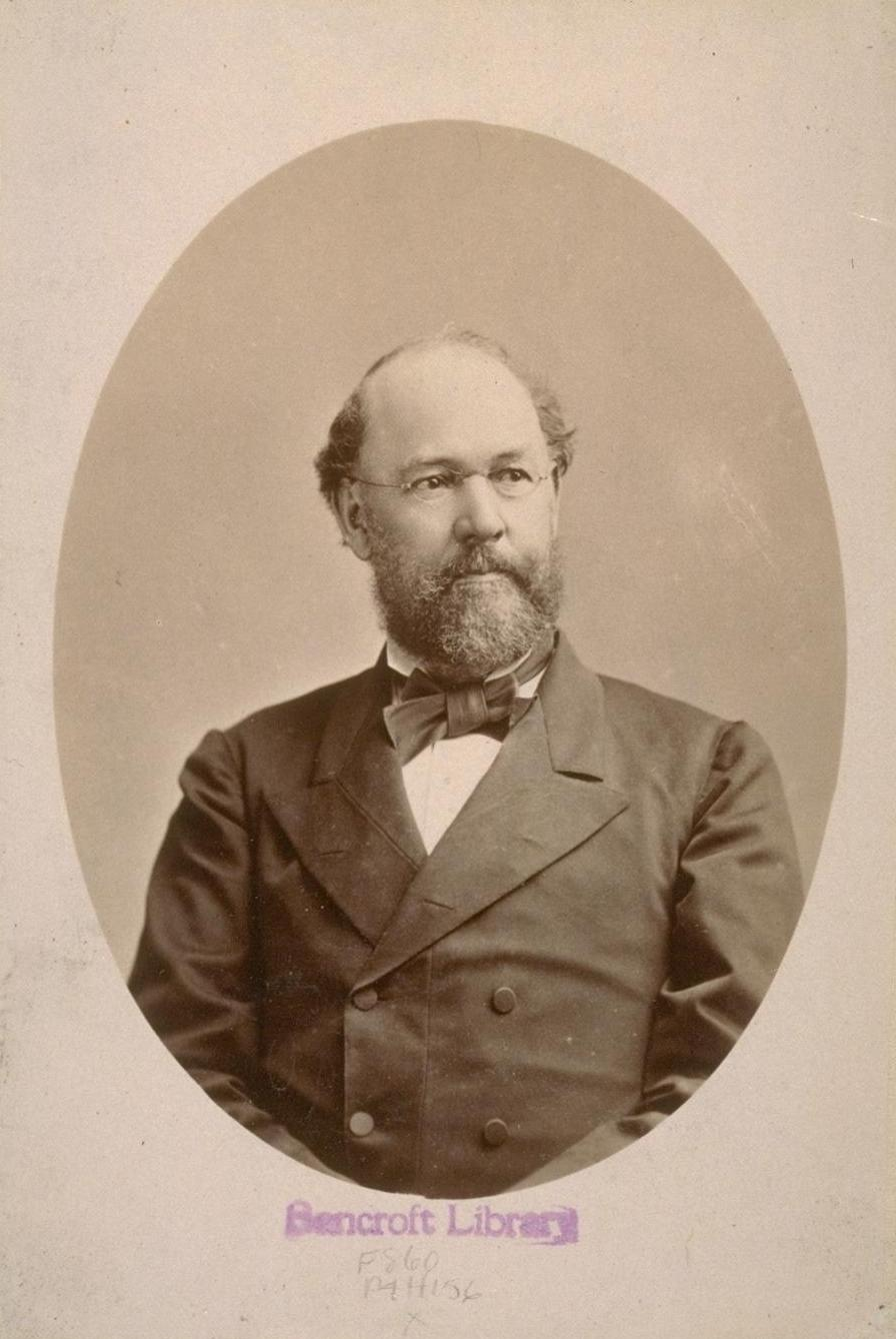 John S. Hager (1818-1890), U.S. Senator from California 1873-75.